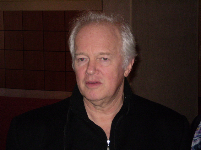 Edo de Waart, introduced as Music Director Designate of the Milwaukee Symphony Orchestra at the Marcus Center for the Performing Arts on January 3, 2008.